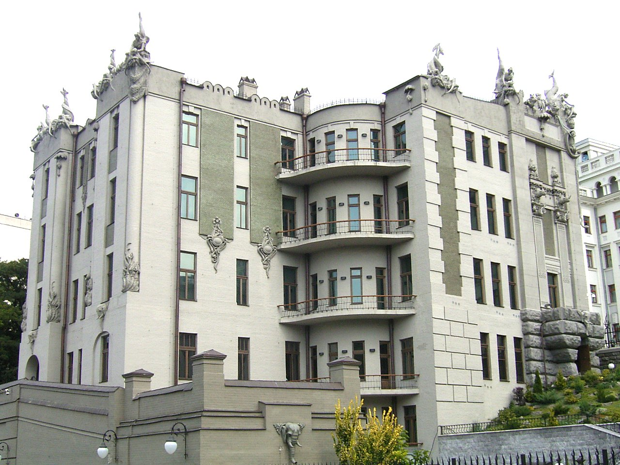 The Art Nouveau House with Chimaeras, in the Pechersk neighbourhood of Kiev, Ukraine.